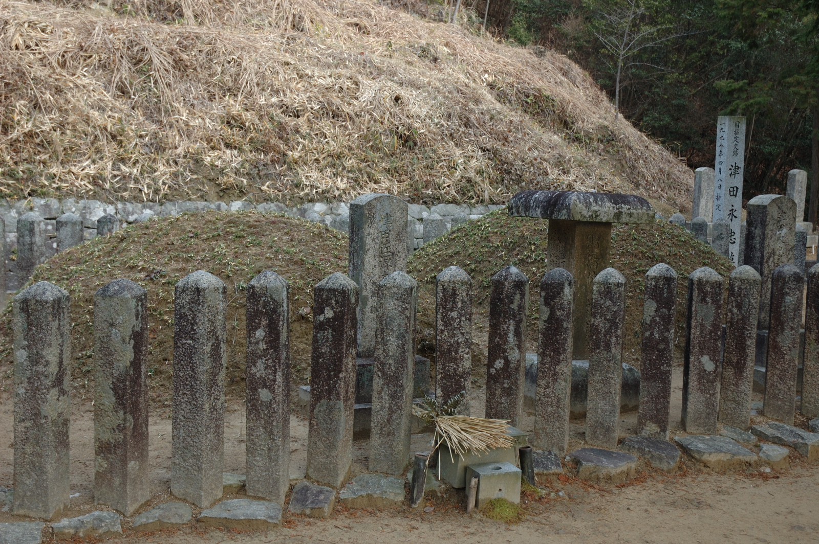 Graves of Tsuda Nagatada and his wife (designated as Japan's national historical site) in Wake, Okayama, Japan. Tsuda Nagatada was a feudal retainer of Okayama in the Early Edo period.